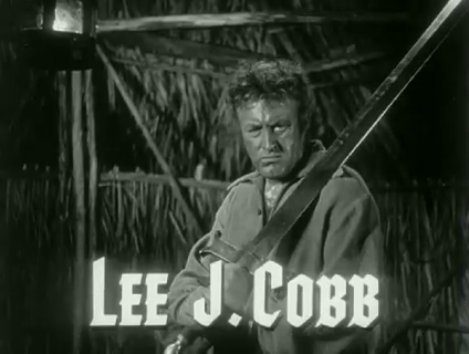 Lee J. Cobb Captain from Castile Henry King 1947